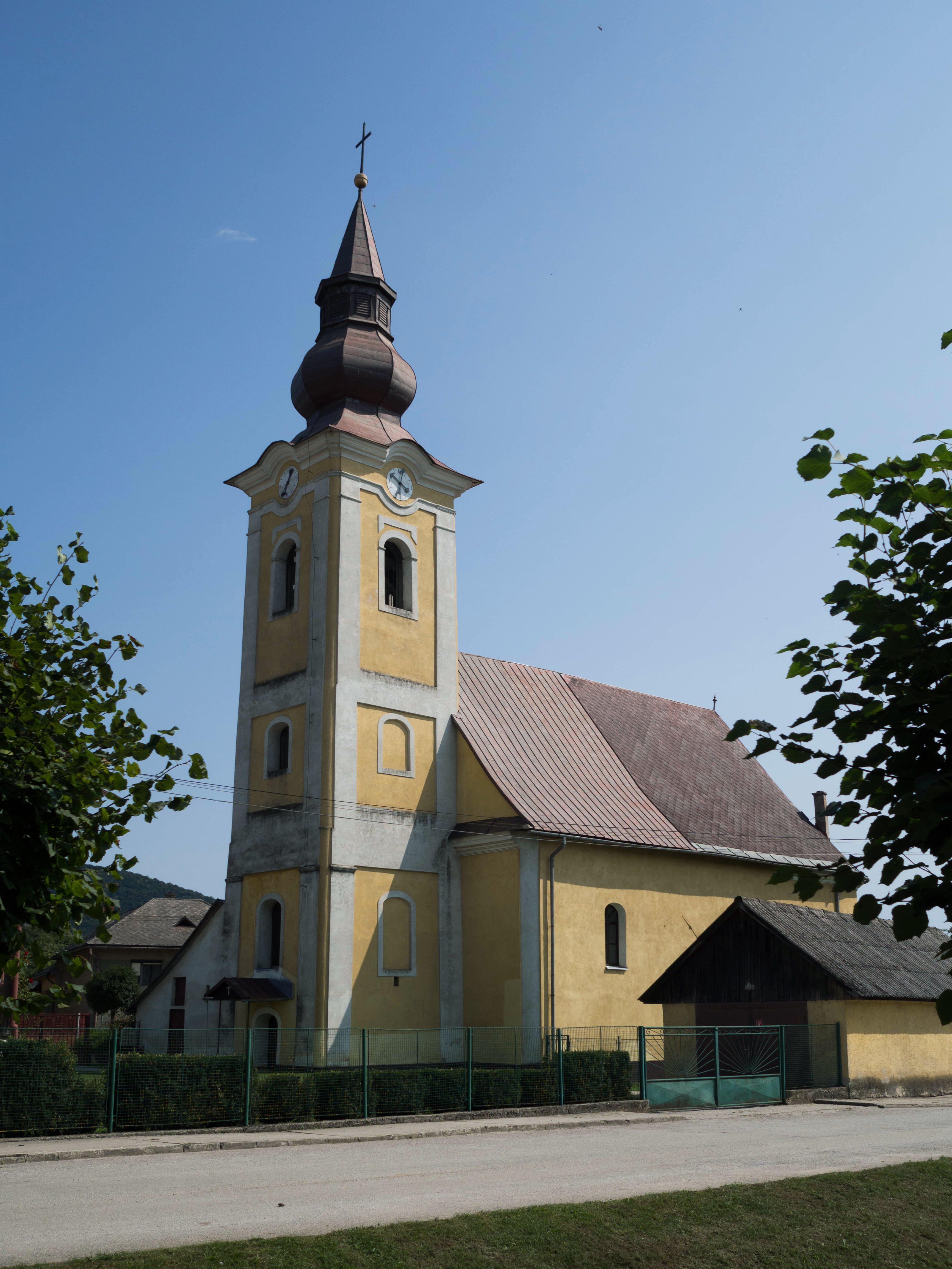 Classical Luteran Church from 1785-1786 in Chyžné, Slovakia.